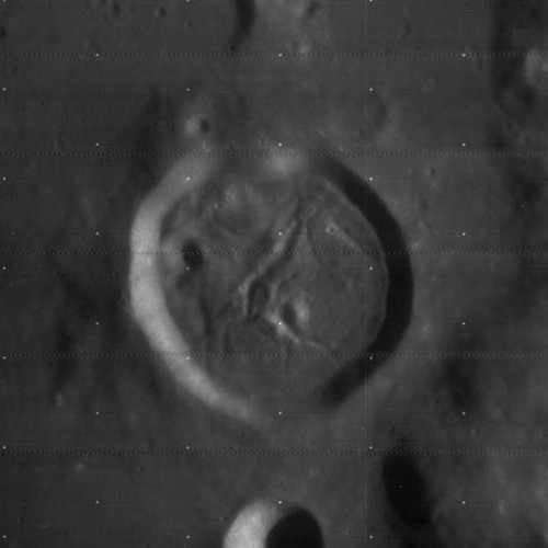 Bohnenberger, on the moon.